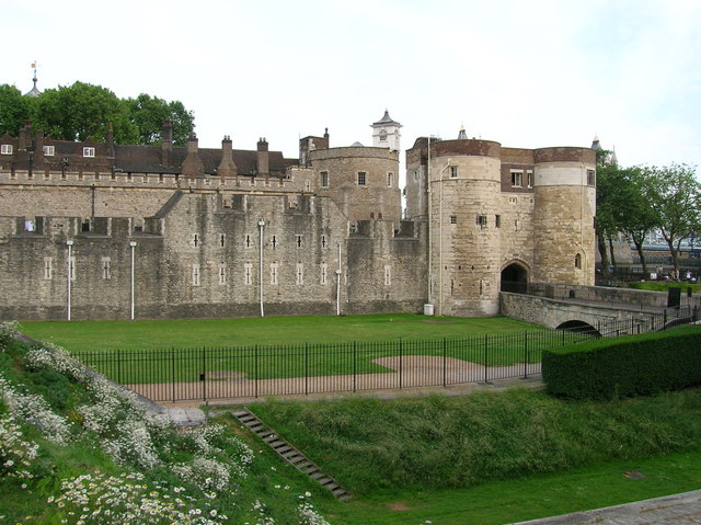 The south-western corner of Tower of London EC3